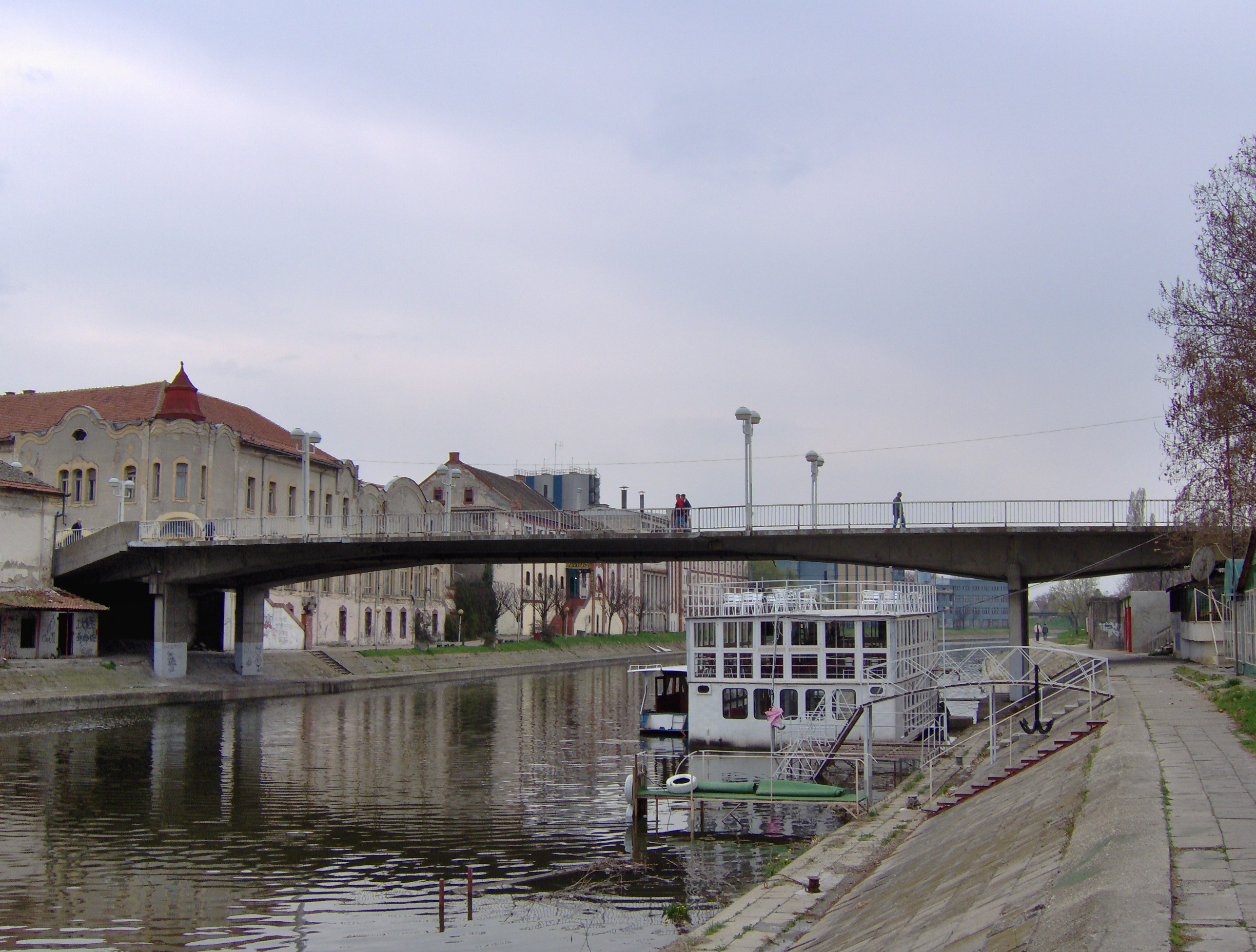 Begej River in Zrenjanin (the bridge shown on the picture is located at same place were the former Eiffel Bridge used to stand)